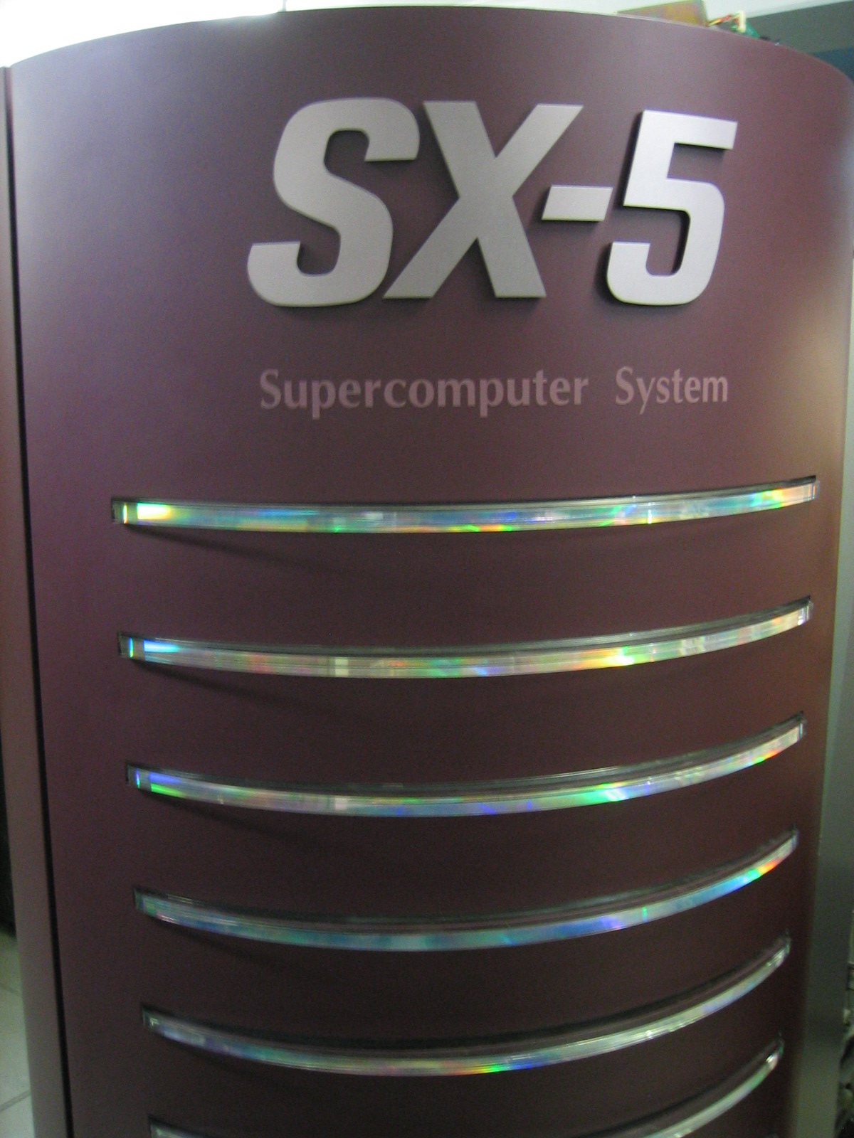 Vintage computer at VCFE meeting in Germany